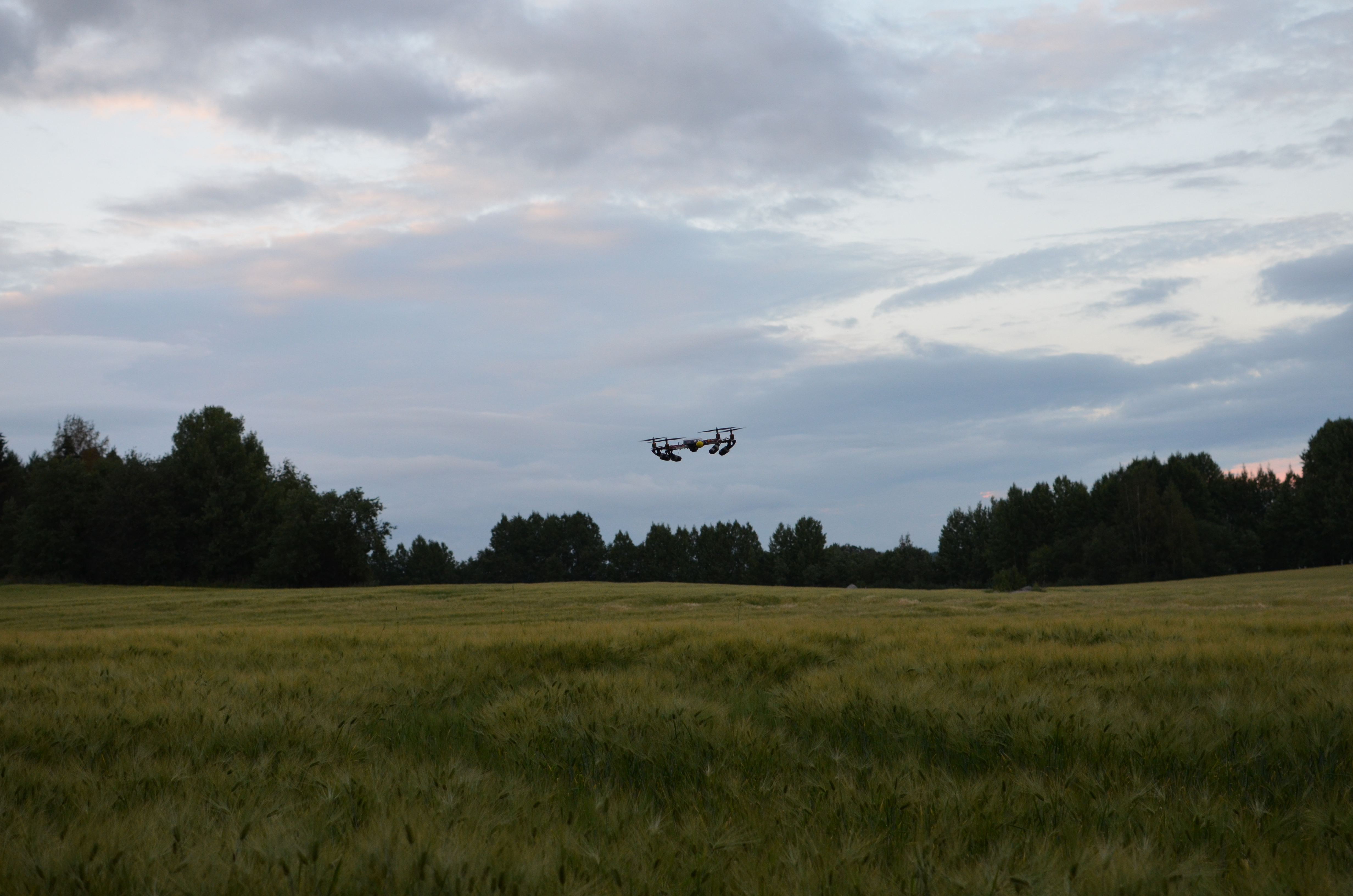 Fields at haukanniemi and quadrotor helicopter.